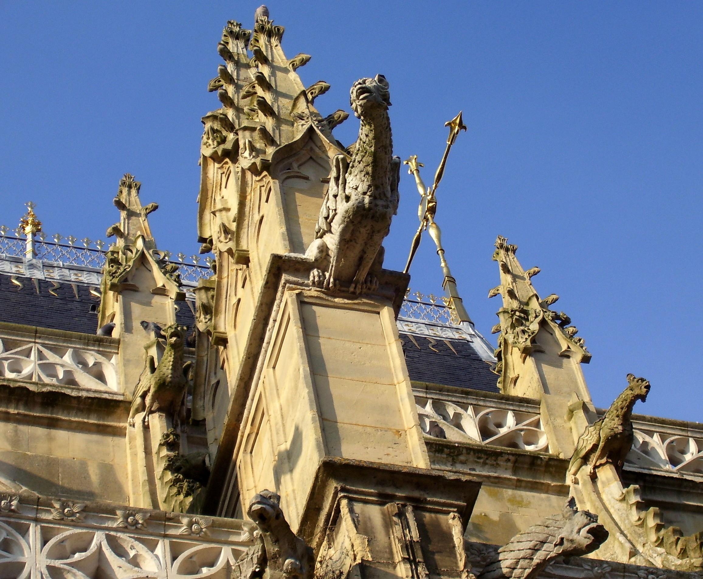 Gargoyles on the roof of the gothic church Sainte-Foy (Saint Faith) in Conches-en-Ouche, departement Eure, Haute-Normandie, France.